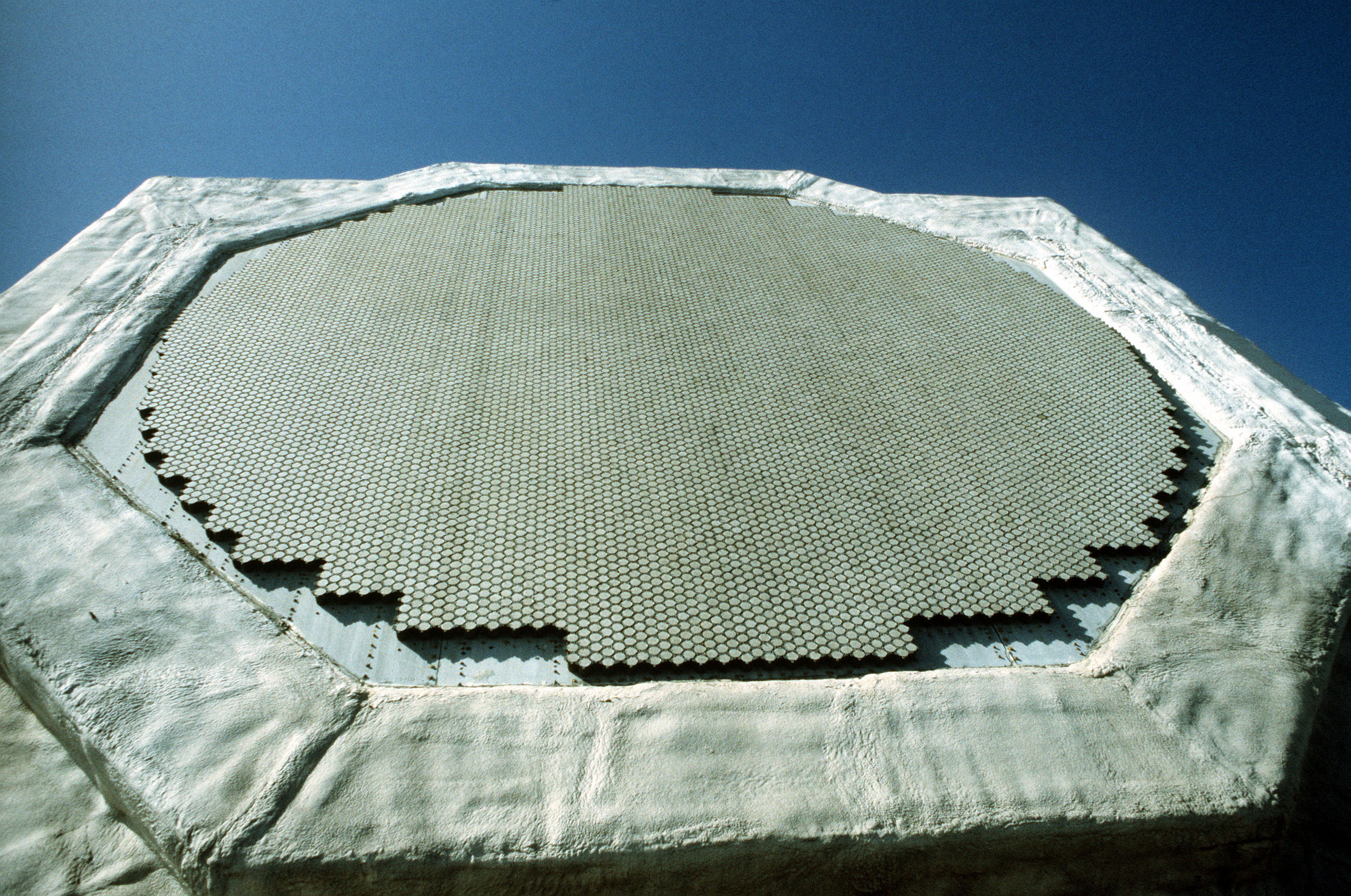 The Cobra Judy phased-array radar system on the missile range instrumentation ship USNS Observation Island (T-AGM 23).